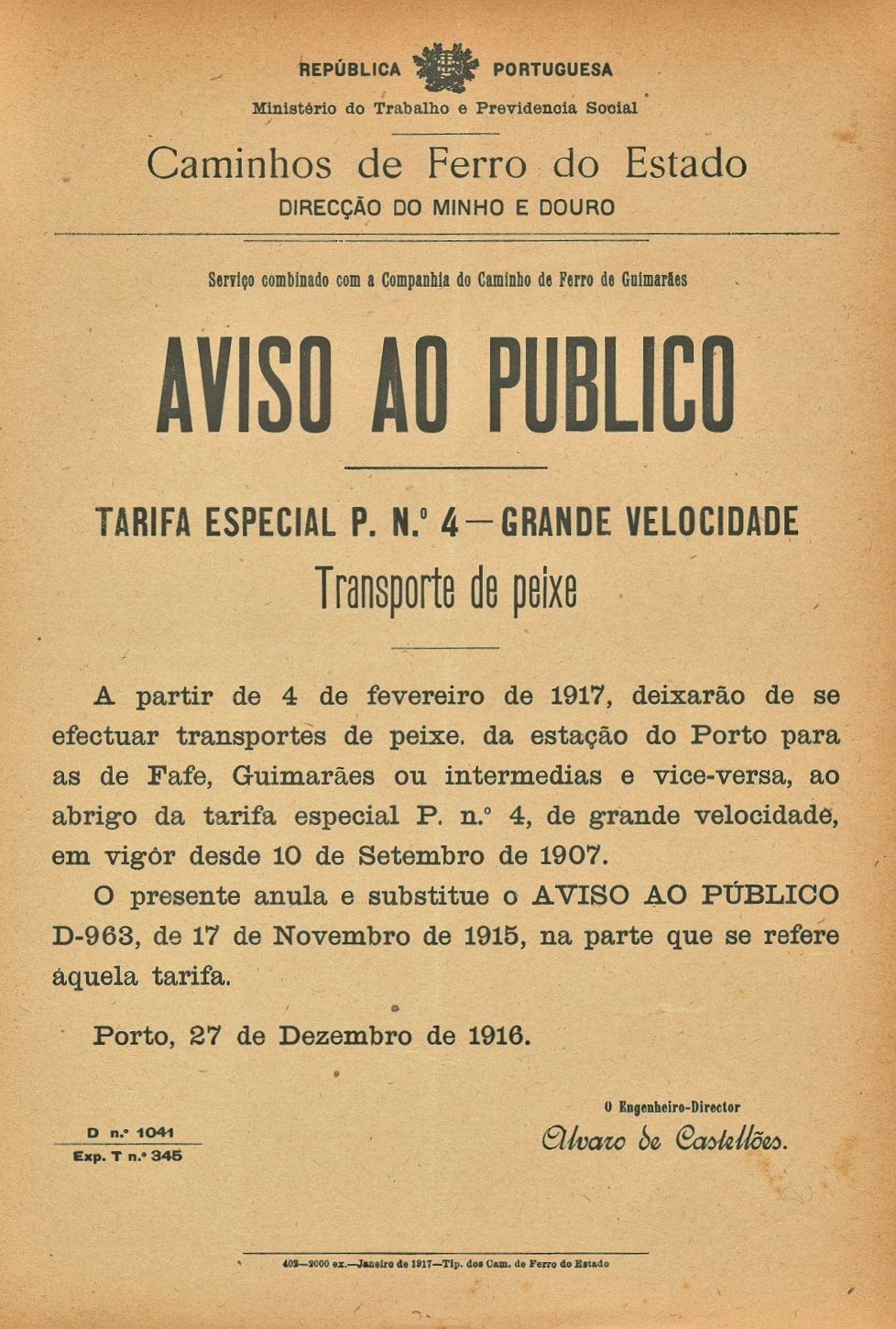 Public warning of the Caminhos de Ferro do Estado (State Railways), about the end of the transport of fish between the Porto - São Bento train station and the Linha de Guimarães (Guimarães Railway), in Portugal, under the special tariff P. 4. This image was published on the Gazeta dos Caminhos de Ferro magazine no. 700, of the 16th February 1917, and scanned by the Hemeroteca Municipal de Lisboa.